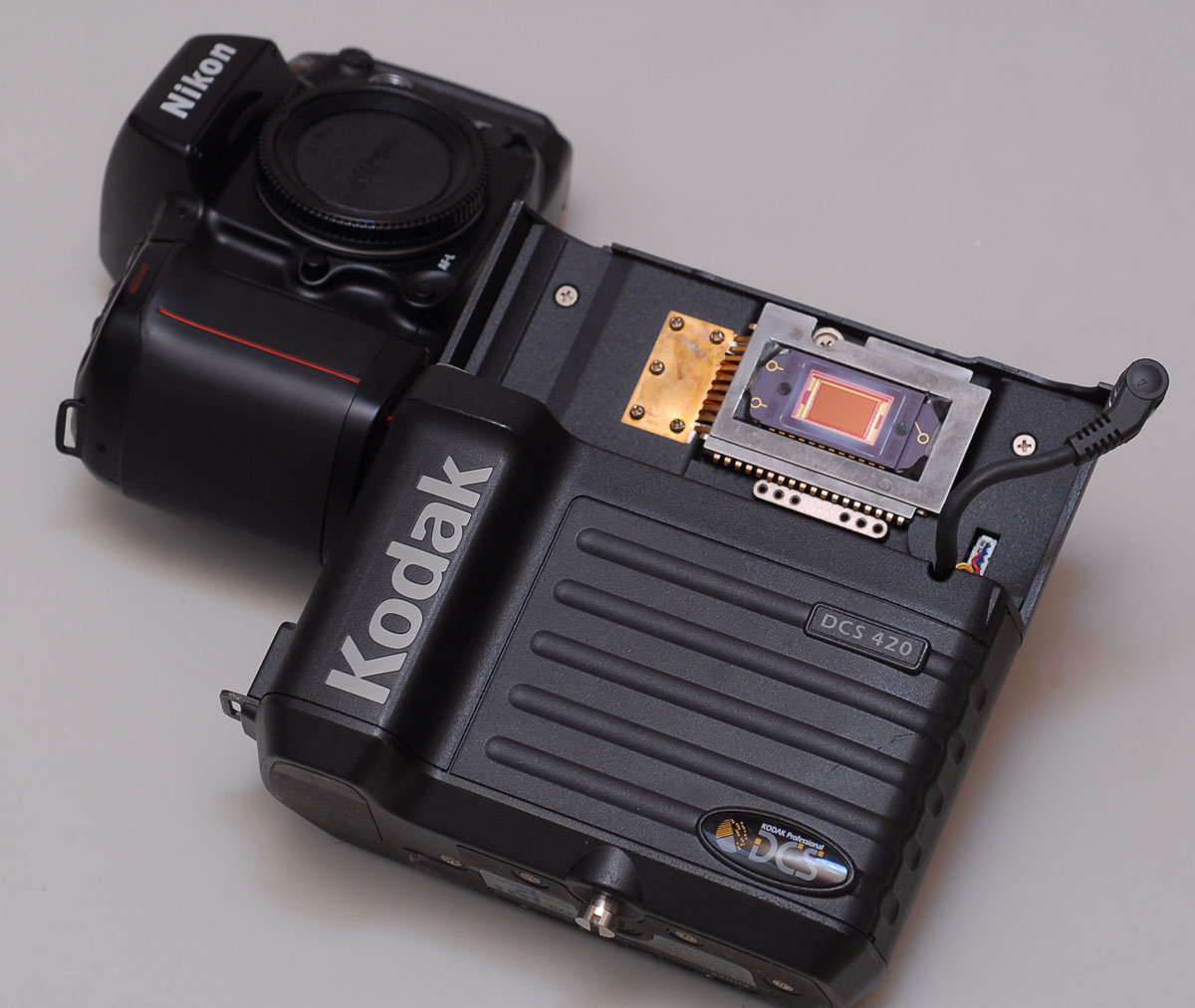 Kodak digital back system model "DCS 420". base camera is Nikon N90 (F90s/x).